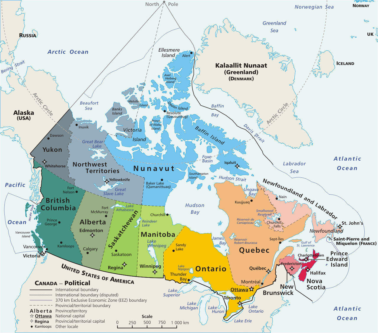 Map: Canada – geopolitical Drawn and adapted by E Pluribus Anthony from Atlas of Canada Edited by User:Heqs/User:Cogito ergo sumo to show disputed nature of Canada's marine international boundary claims; see Canada-United_States_border#Remaining_boundary_disputes; further edited by Bosonic dressing to reflect agreed maritime boundary between Canada and Greenland/Denmark